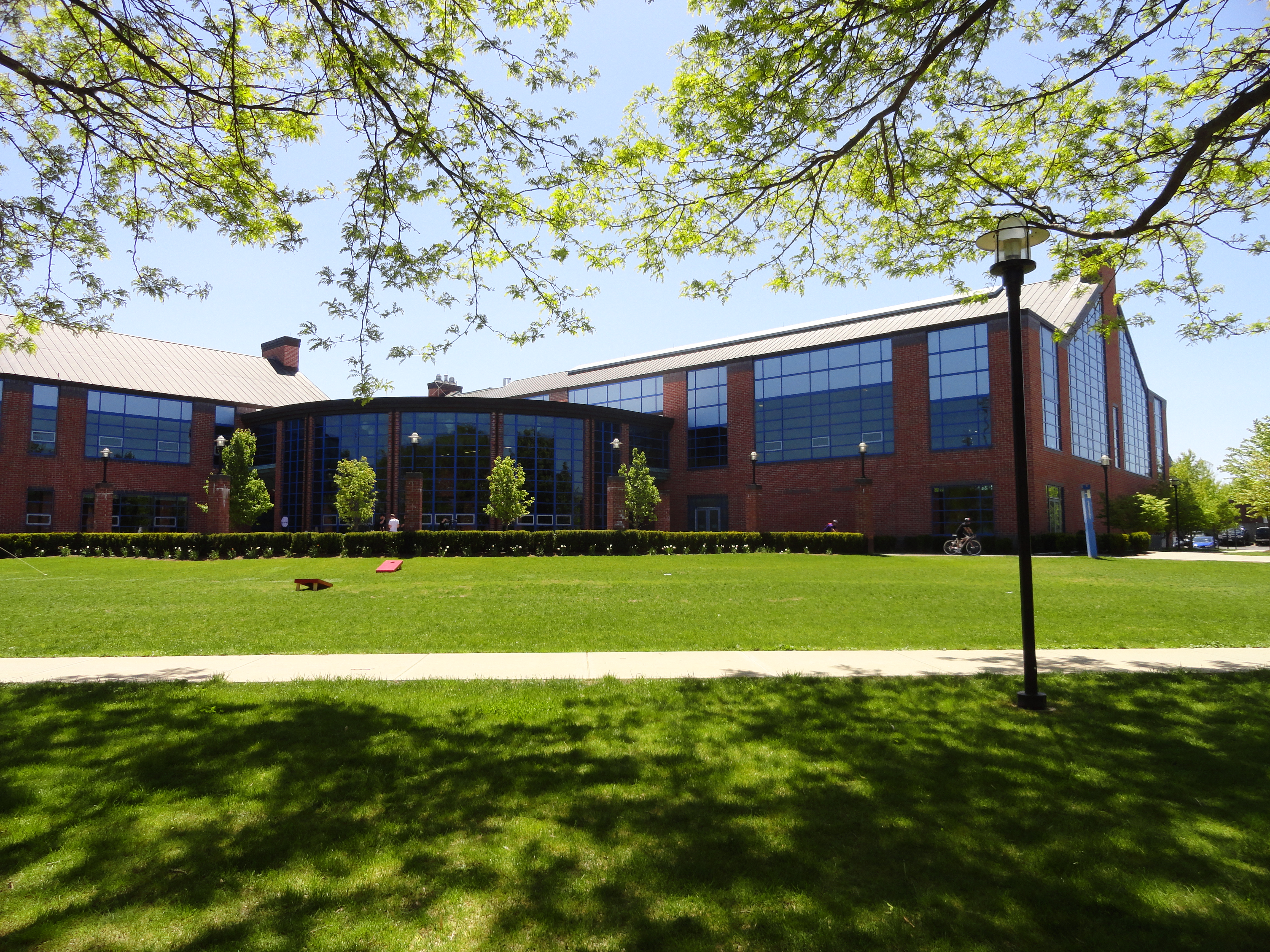 The Recreation Center's north side, on the University of Massachusetts Lowell's East Campus.